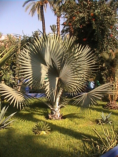 BISMARKIA Maroc (530) - R. BENEZET - Jardin Marrakech 2005